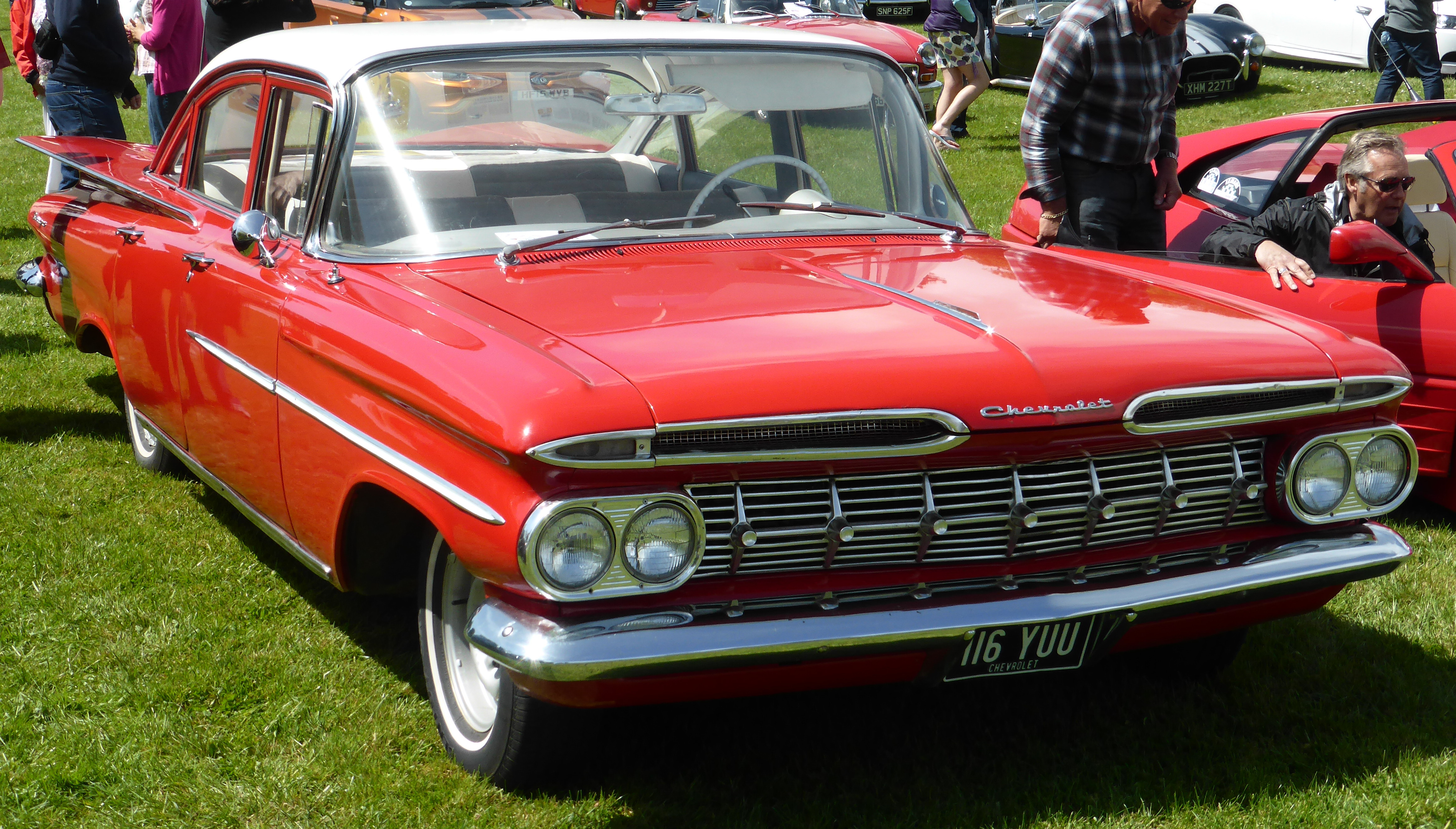 Lulworth Castle Classic Car Show